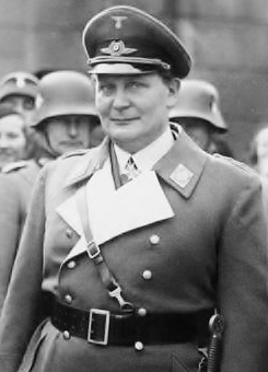 Hermann Göring in Potsdam in 1934